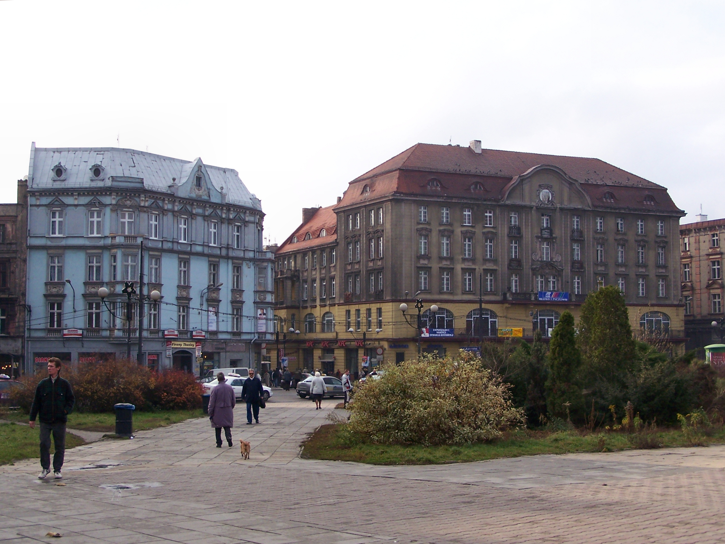 Kościuszko Square in Bytom (Poland).